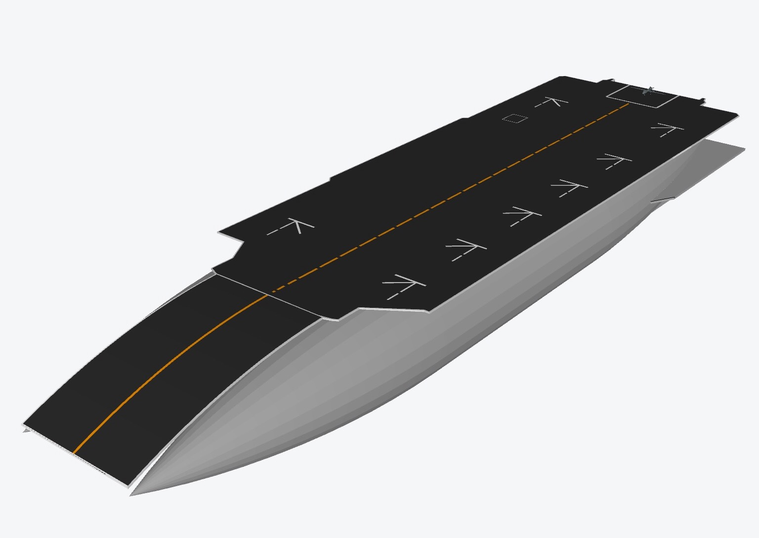 I hereby affirm that I, (kcida10) the creator of ( Aerial_aircraft_carrier_drone ) is my work. I agree to publish that work under the free license " This file is made available under the Creative Commons CC0 1.0 Universal Public Domain Dedication. The person who associated a work with this deed has dedicated the work to the public domain by waiving all of his or her rights to the work worldwide under copyright law, including all related and neighboring rights, to the extent allowed by law. You can copy, modify, distribute and perform the work, even for commercial purposes, all without asking permission. " I acknowledge that by doing so I grant anyone the right to use the work in a commercial product or otherwise, and to modify it according to their needs, I am aware that this agreement is not limited to Wikipedia or related sites. Modifications others make to the work will not be claimed to have been made by me. I acknowledge that I cannot withdraw this agreement, and that the content may or may not be kept permanently on a Wikimedia project. Kcida10 La Crosse, WI 54603. I am the designer and creator of the 3D model ( Aerial_aircraft_carrier_drone ) on Sketchup Make's open source repository. 28Nov15 Description Catamaran airship drone aircraft carrier